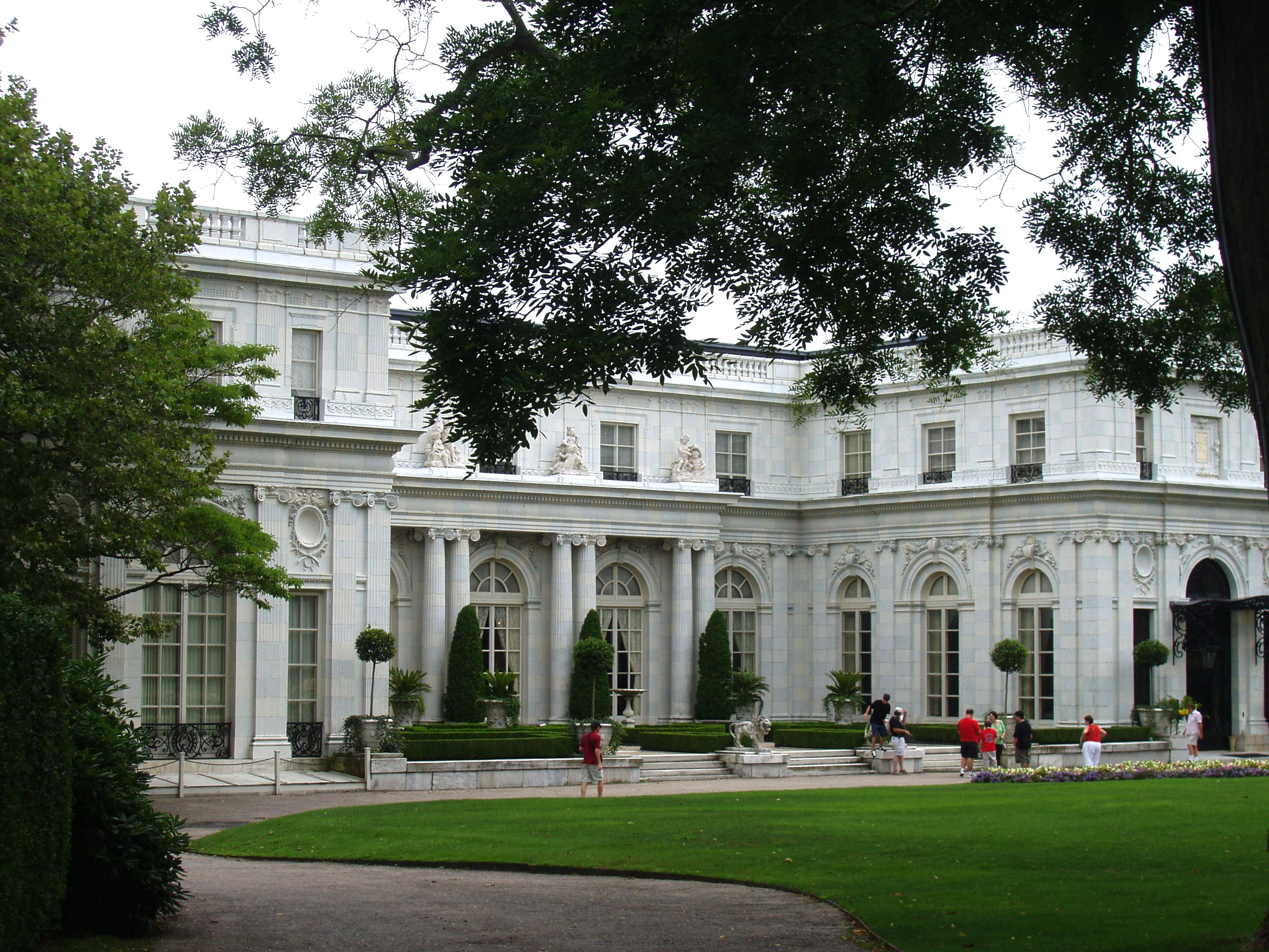 Rosecliff, Newport, Rhode Island. Viewed obliquely from front left side of the house. Photograph taken by me, August 2005. Category:McKim, Mead, and White buildings